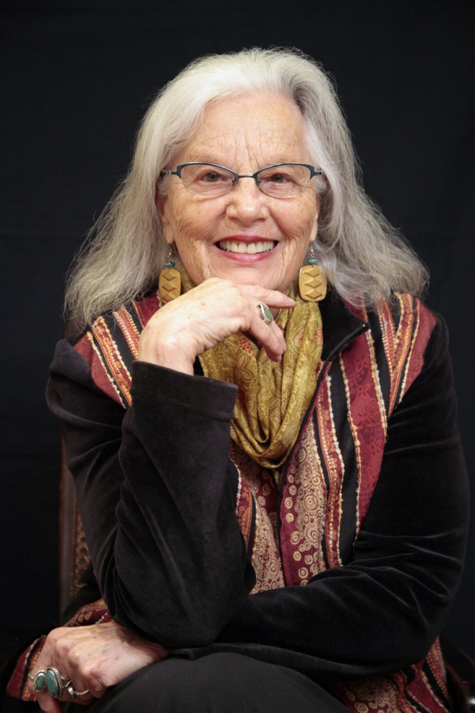 the Latinx poet and activist Nina Serrano